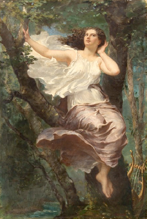 Allegory of music